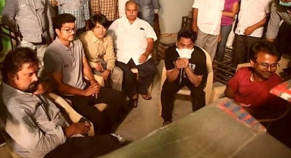 Vijay on the sets of his friend Mahesh film Spyder